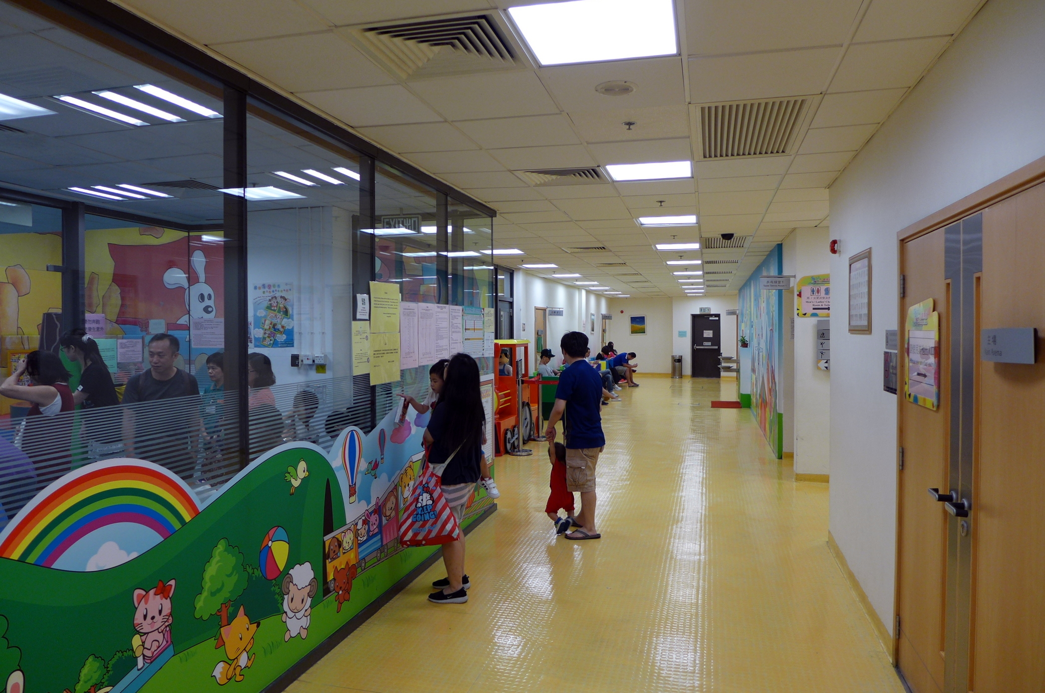 Ma On Shan Sports Centre Interior